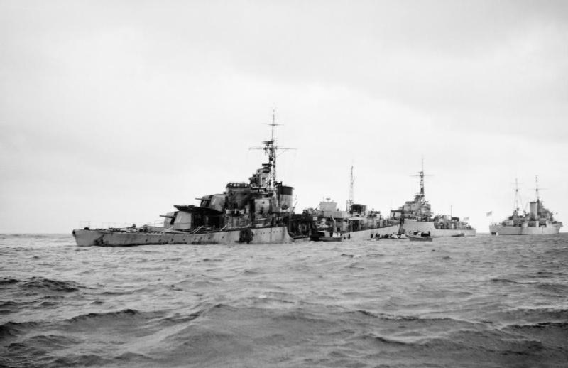 IWM caption : HMS Saumarez showing the damage sustained by an influence mine laid in the Medri Channel area of the Corfu Straight in the Mediterranean. The mine was laid by Albania against international agreements. She is seen here under tow from HMS Volage, which suffered a similar fate just two hours later. Comment : see Corfu Channel Incident.